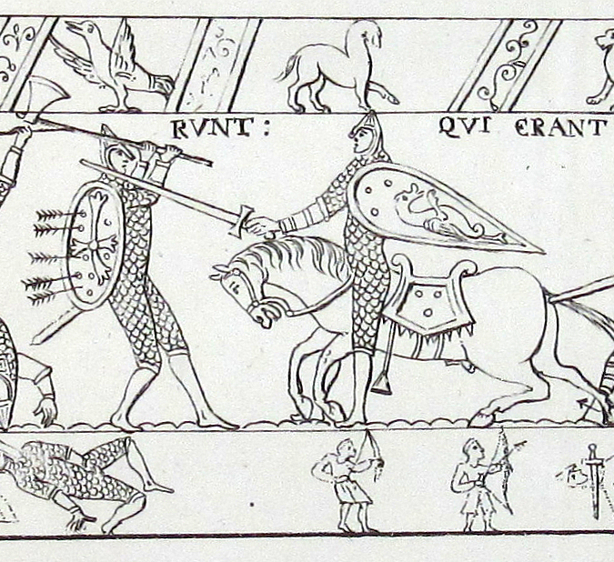 Part of the Bayeux Tapestry showing a fight between a Norman knight and a Saxon housecarl. Reference here.